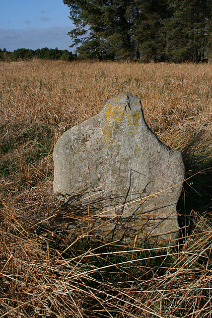 Symbol Stone